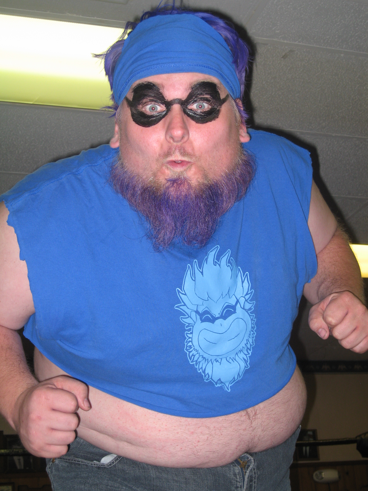 blue meanie in seasie.